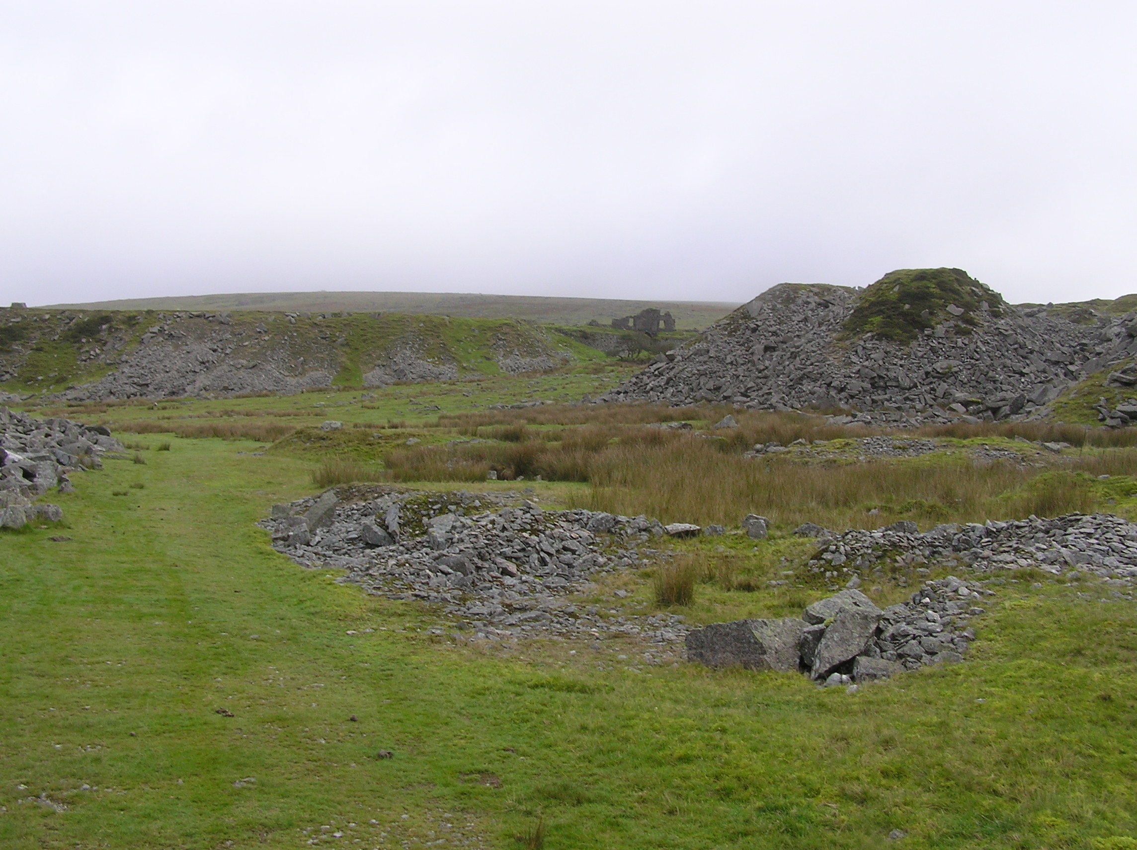 On Plymouth & Dartmoor Railway England at Foggintor